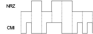 Coded Mark Inversion line ecoding according to ITU-T G.703 A.3.